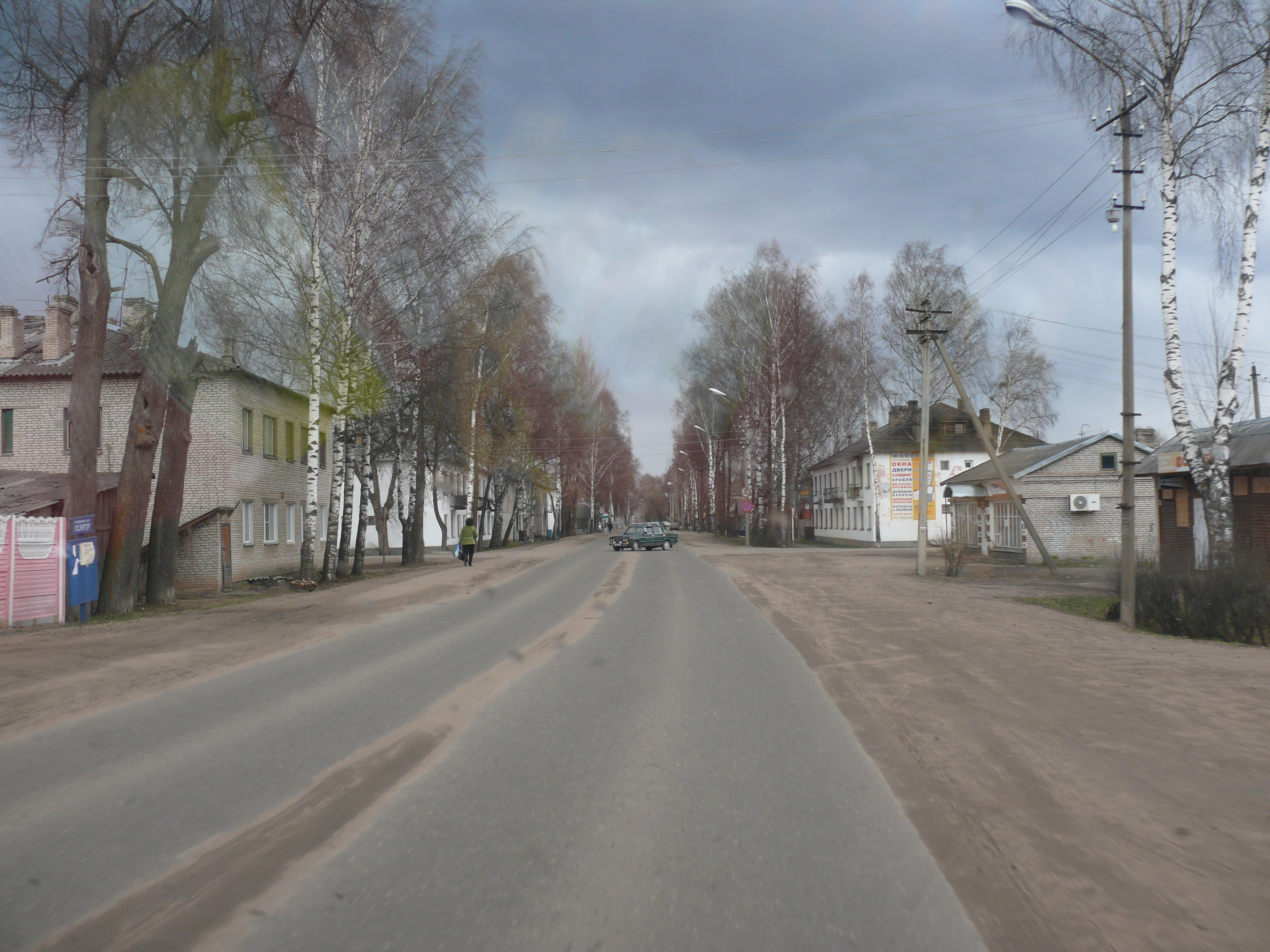 25 Oktober street in Demyansk village. Novgorod oblast, Russia